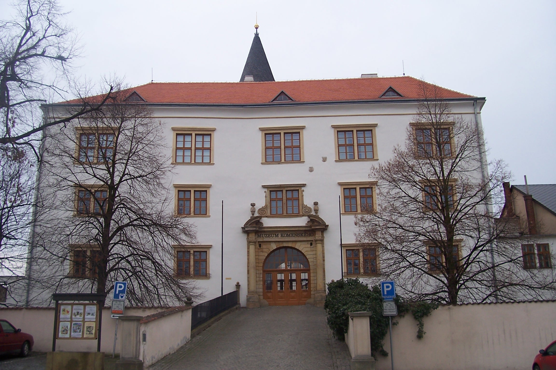 Přerov , Czech Republic. Castle, now Comenius-museum.